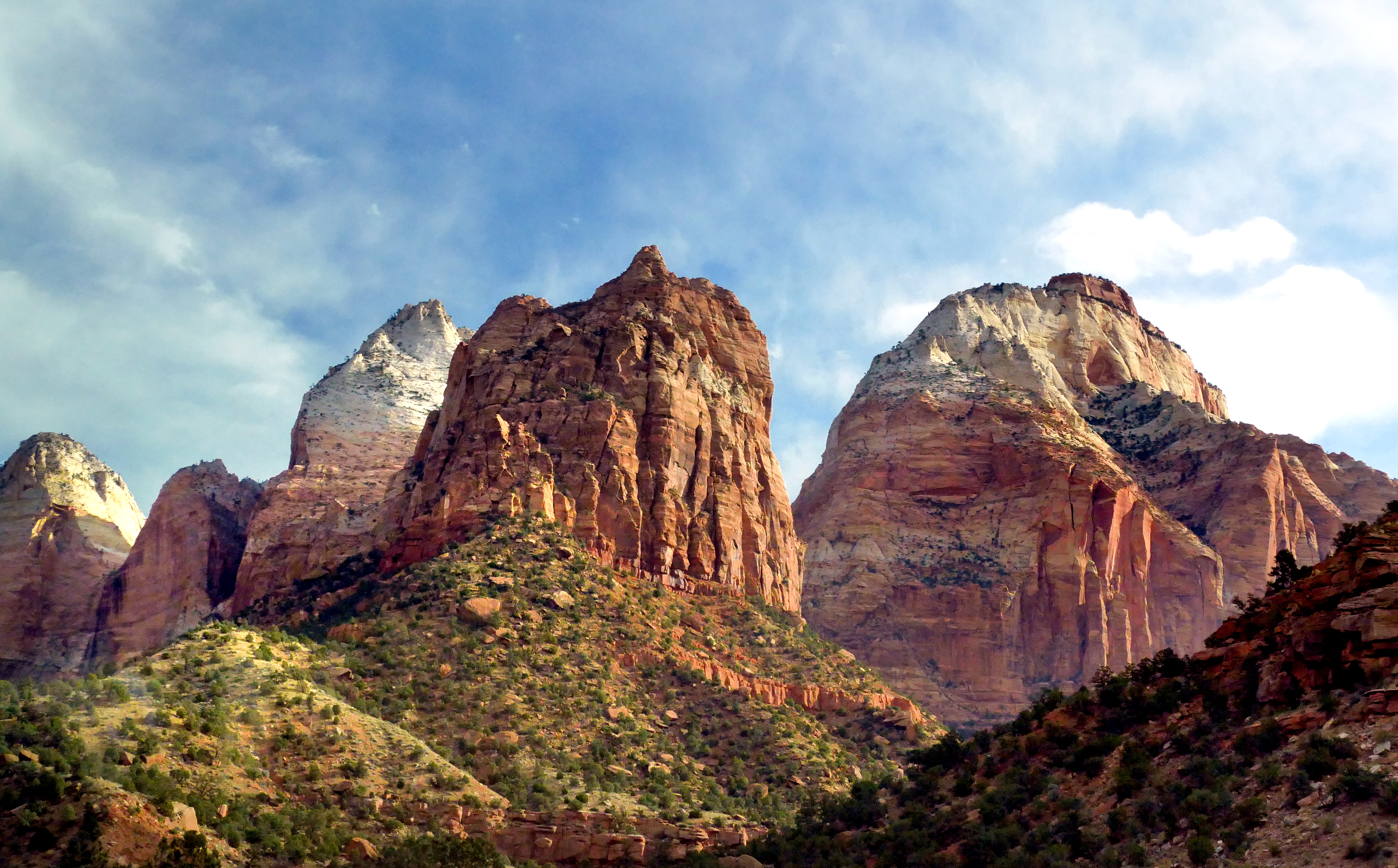 Mount Spry and East Temple